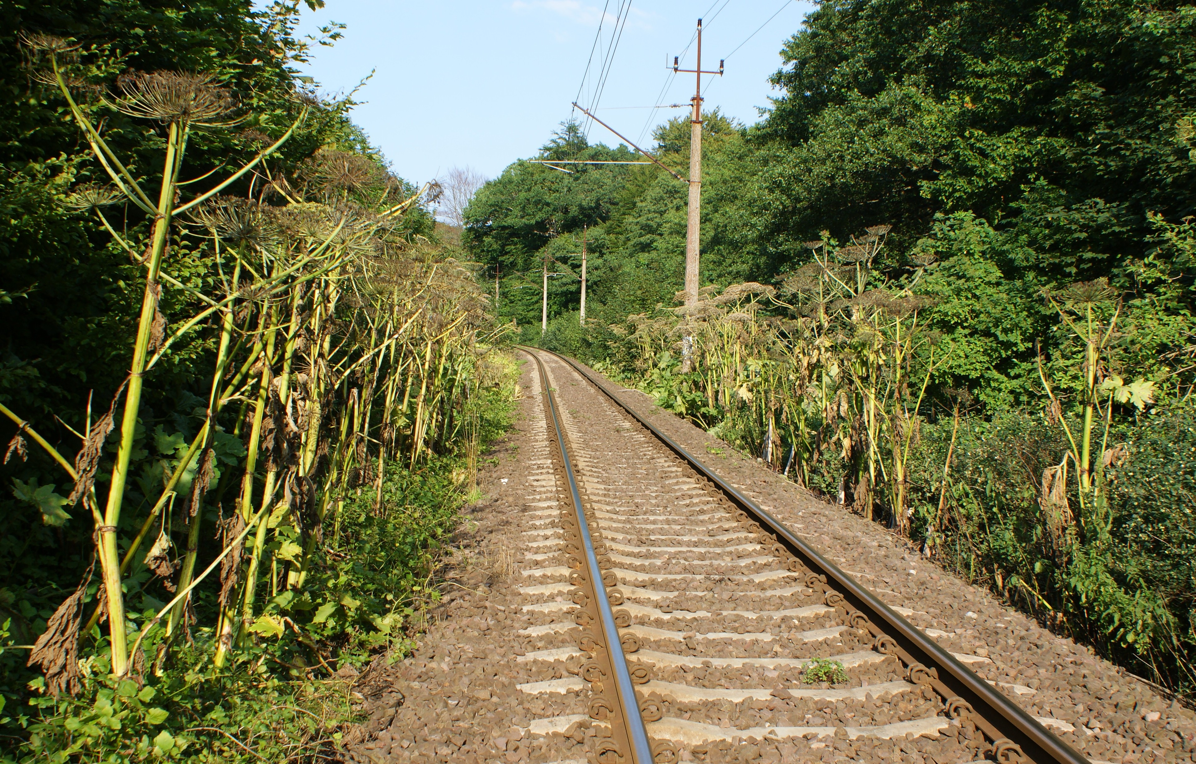 Heracleum sosnowskyi along railway track near Kołobrzeg (NW Poland).